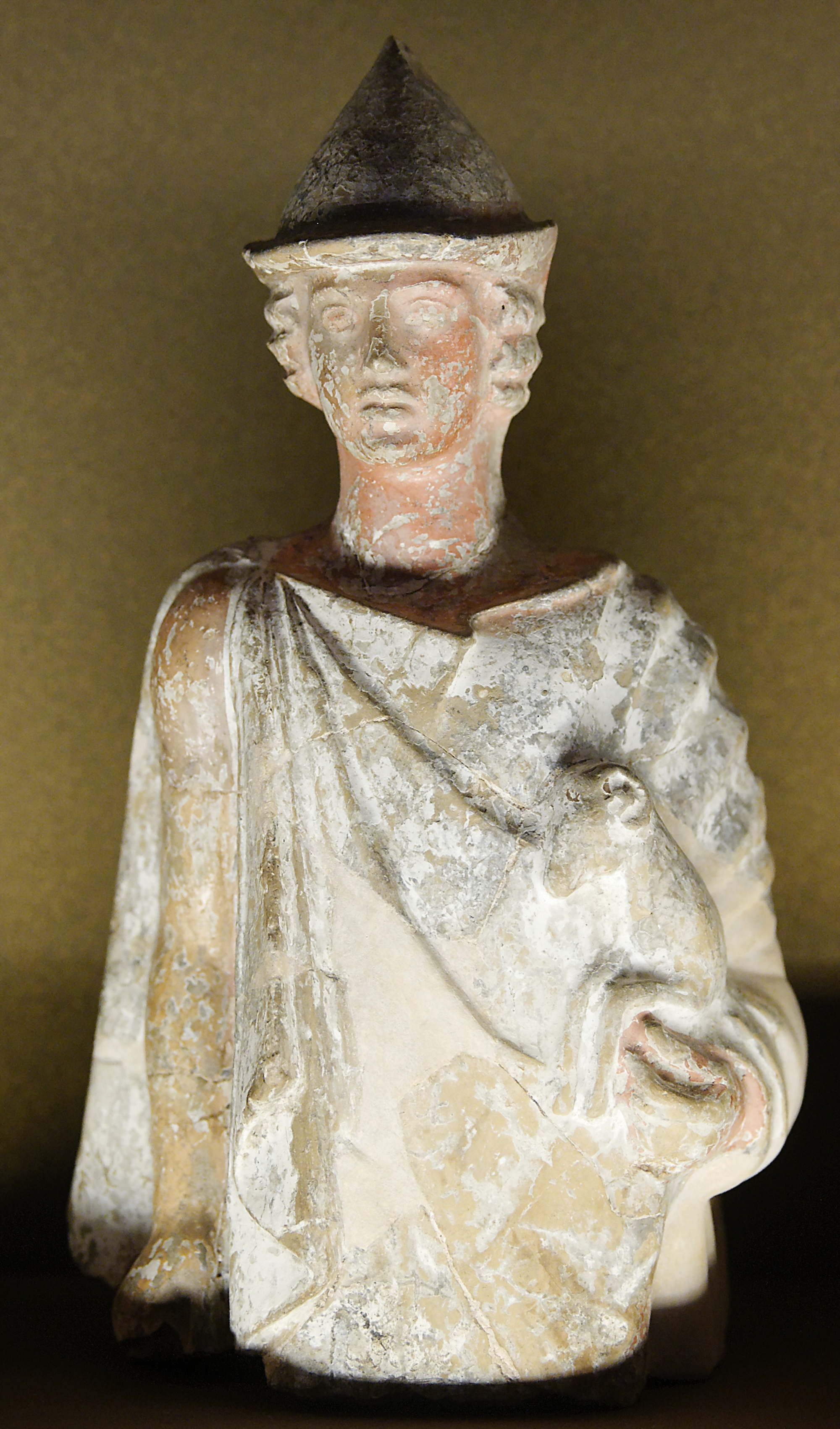 Youngster carrying a ram, maybe Hermes Criophorus (protector of herds). Terracotta from Boeotia, ca. 450 BC.